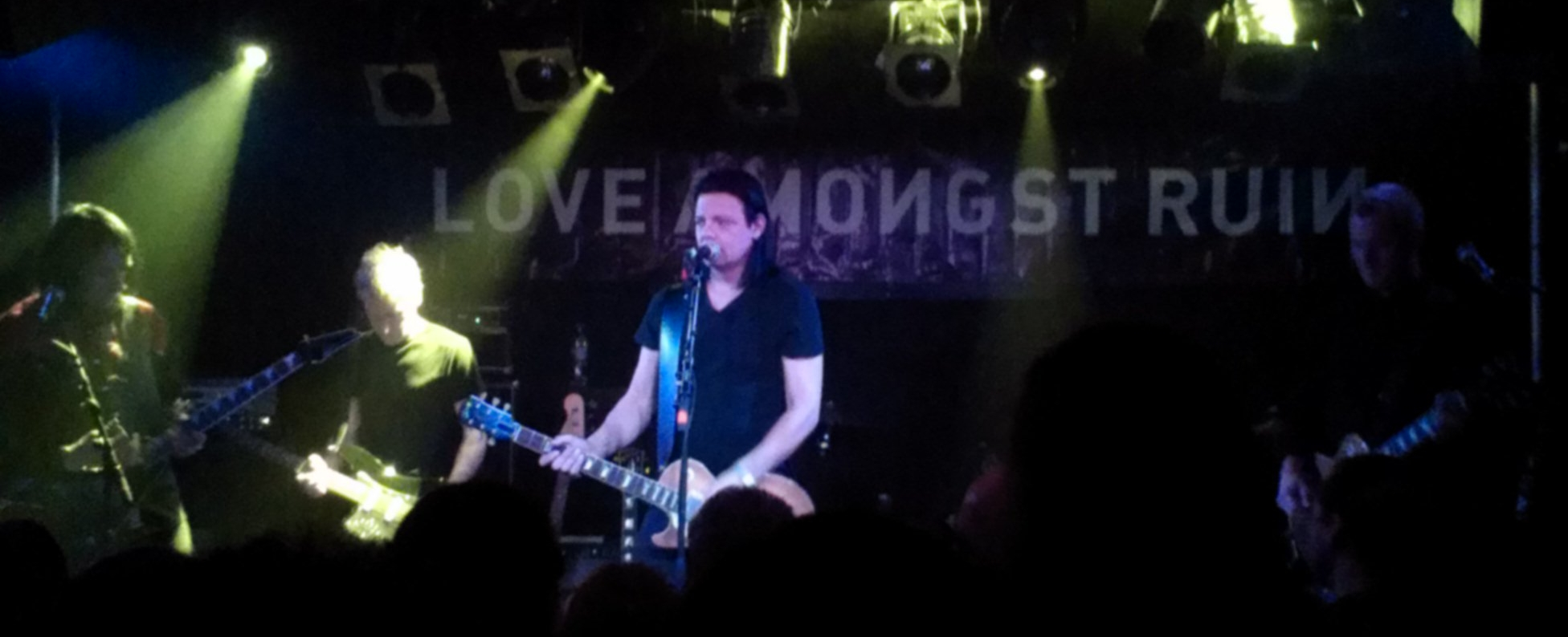 Love Amongst Ruin live at the Barfly, Camden